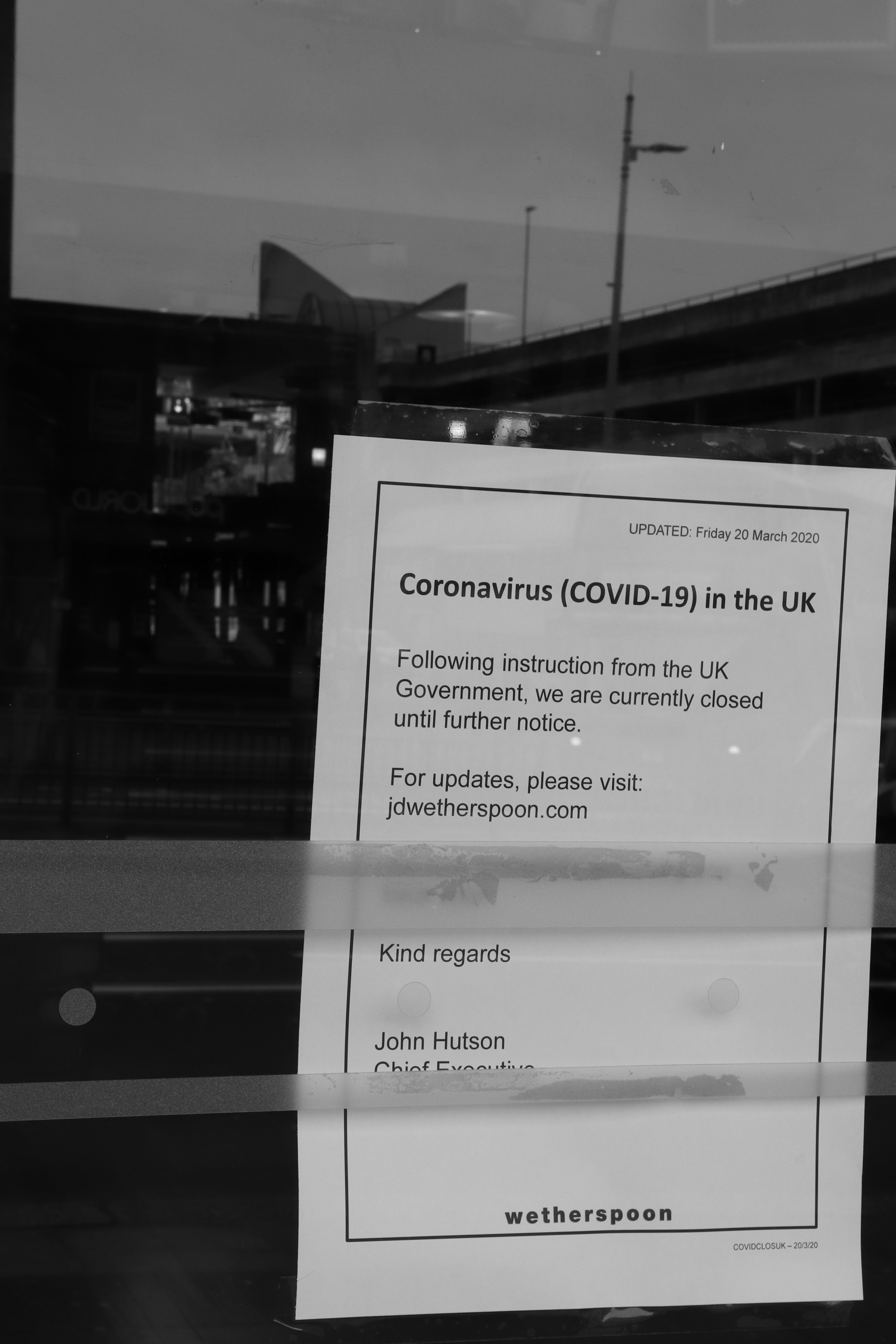 COVID-19 closure notice on a Wetherspoon pub in Plymouth.